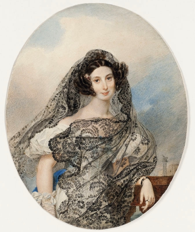 Giovanina Pacini (the eldest daughter of the Italian composer Giovanni Pacini (1796-1867)